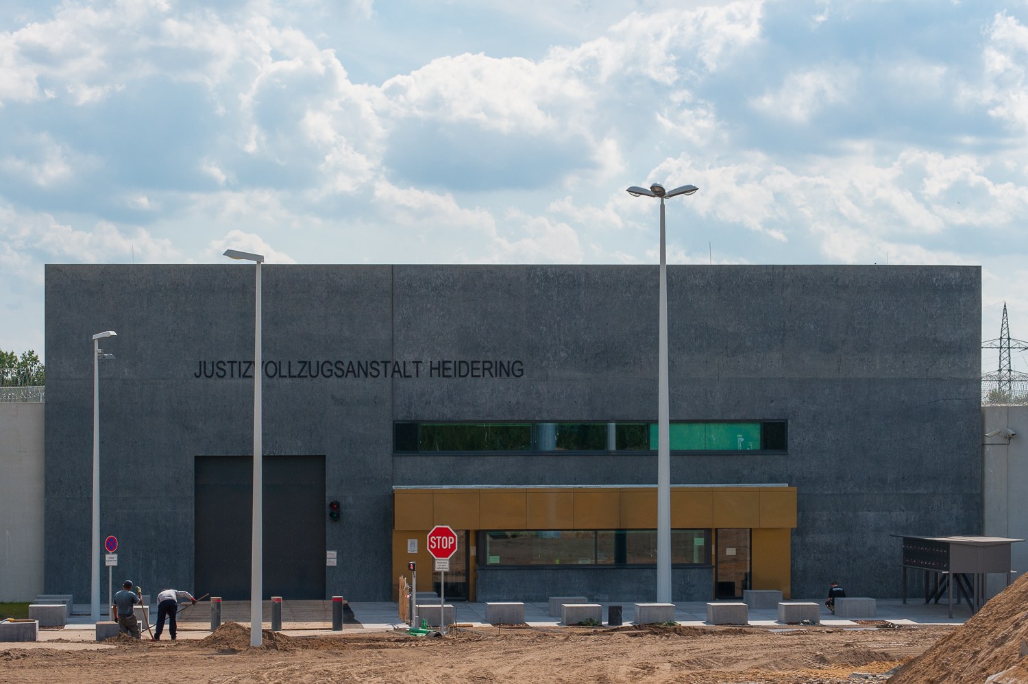 Justizvollzugsanstalt (Prison) Heidering, Ernst-Stargardt-Allee 1, 14979 GroßbeerenDeutscher